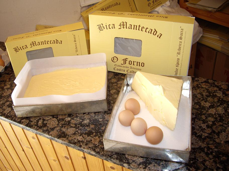 Bica is a typical dessert in the Ribeira Sacra. Extremely delicious